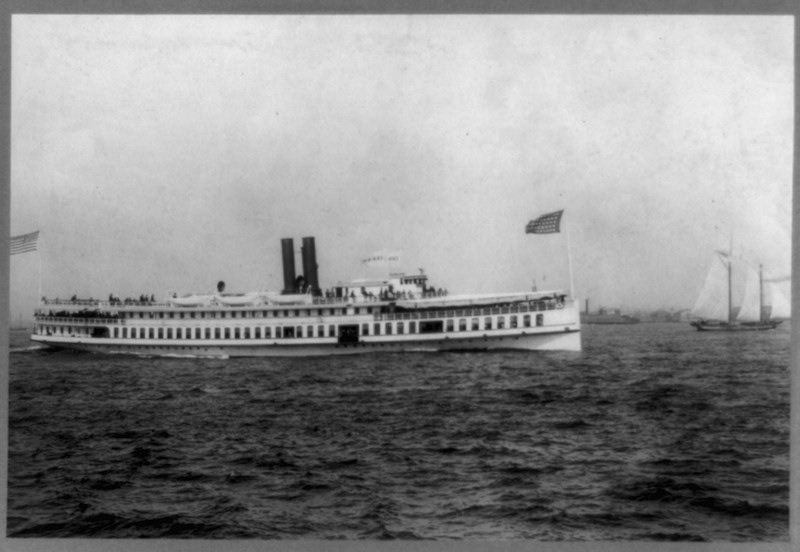 Central RR of New Jersey - Sandy Hook route steamship, Sandy Hook, NJ